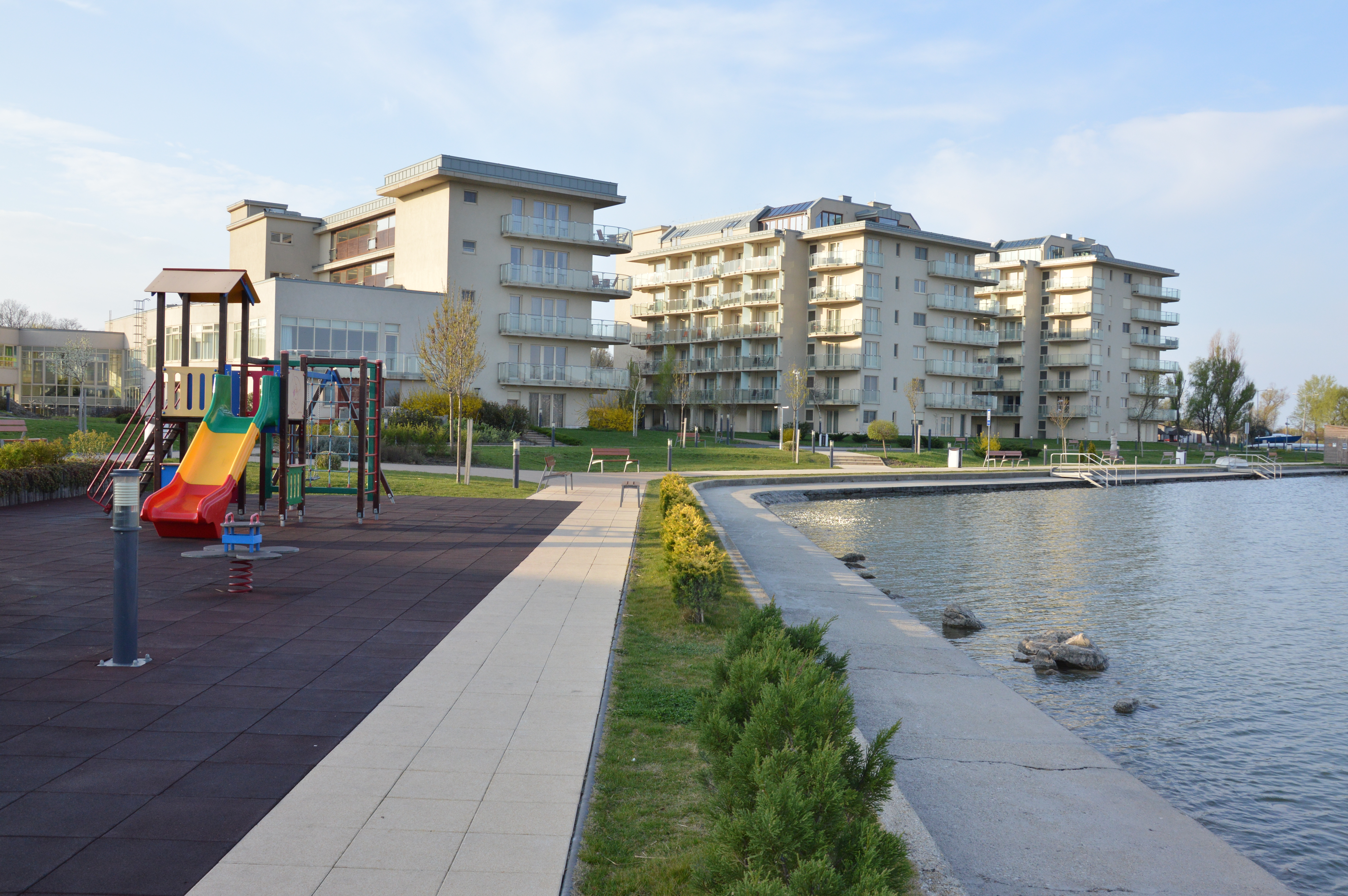 The waterfront/beach with playground and hotel towers at Velence Resort and Spa in Velence, Hungary.